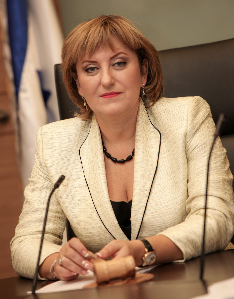 Faina Kirschenbaum